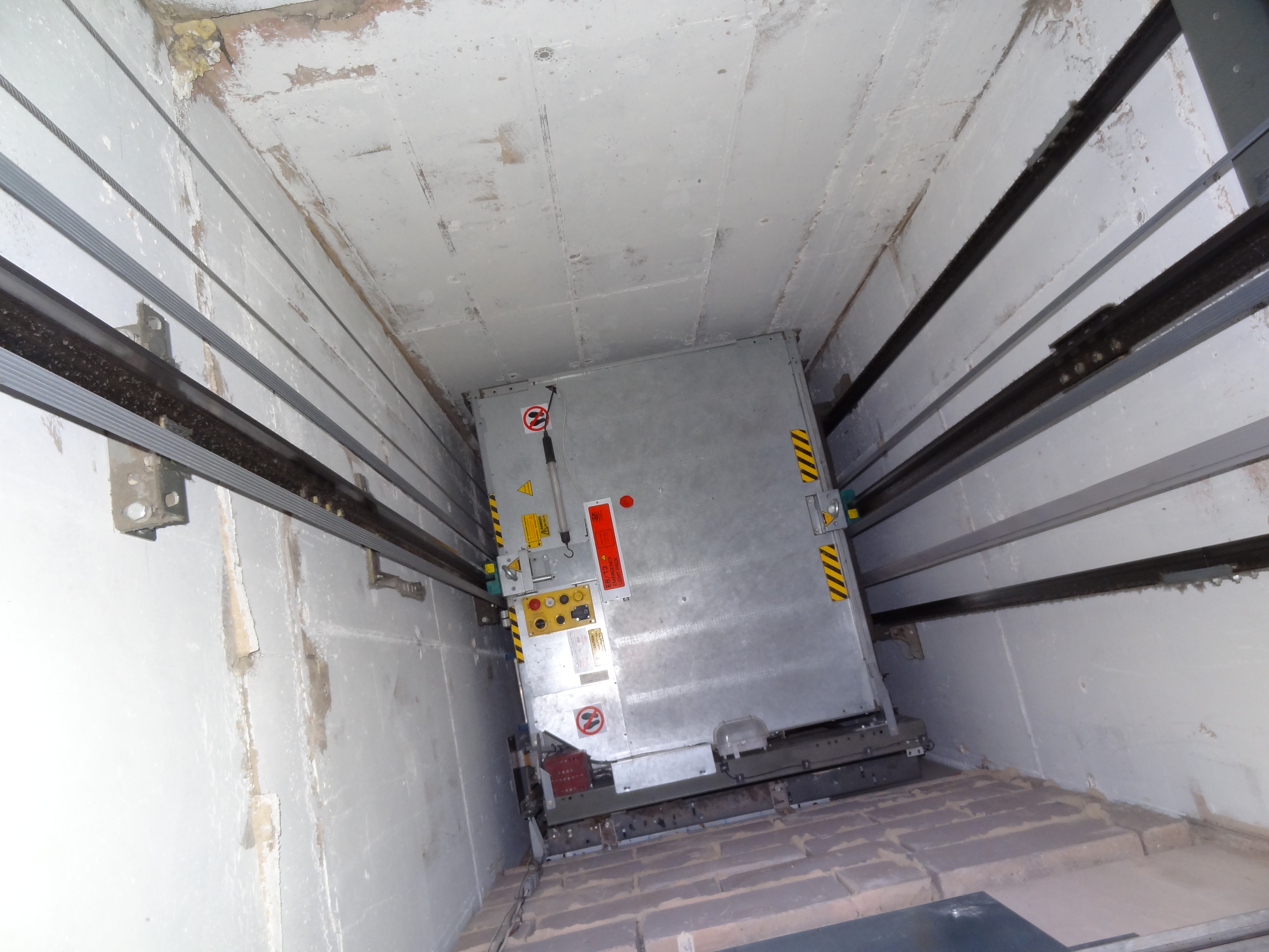 This is a Motor Room-Less design of elevator support where there is no need for a fixed body hoist structure.